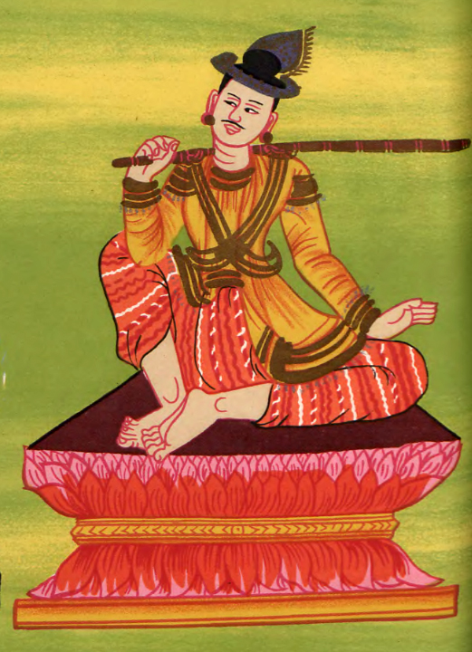 Drawing of Yun Bayin (Mekuti, Lanna king) nat (spirit)